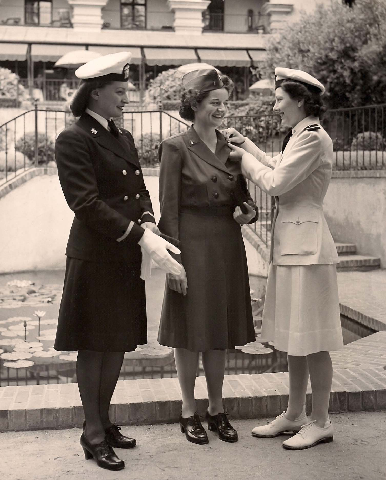 To their "blues" and "whites" members of the US Navy Nurse Corps have added "grays." The new gray uniform is worn here by Lt. (jg) Julia Anna Muraresku (center), of Philadelphia. Ens. Kathleen Litty (left), of Brainard, Neb., wears the blue uniform and the nurse in the white is Ens. Leona McKibbin, of Hayes Center, Neb. Image location: behind the House of Hospitality (nurse quarters), Casa del Rey Moro Garden, Balboa Park, San Diego, California ca. 1944. Image from the LCDR Julia Anna Muraresku (Bricker) Collection, USN Nurse Corps (1941-46).